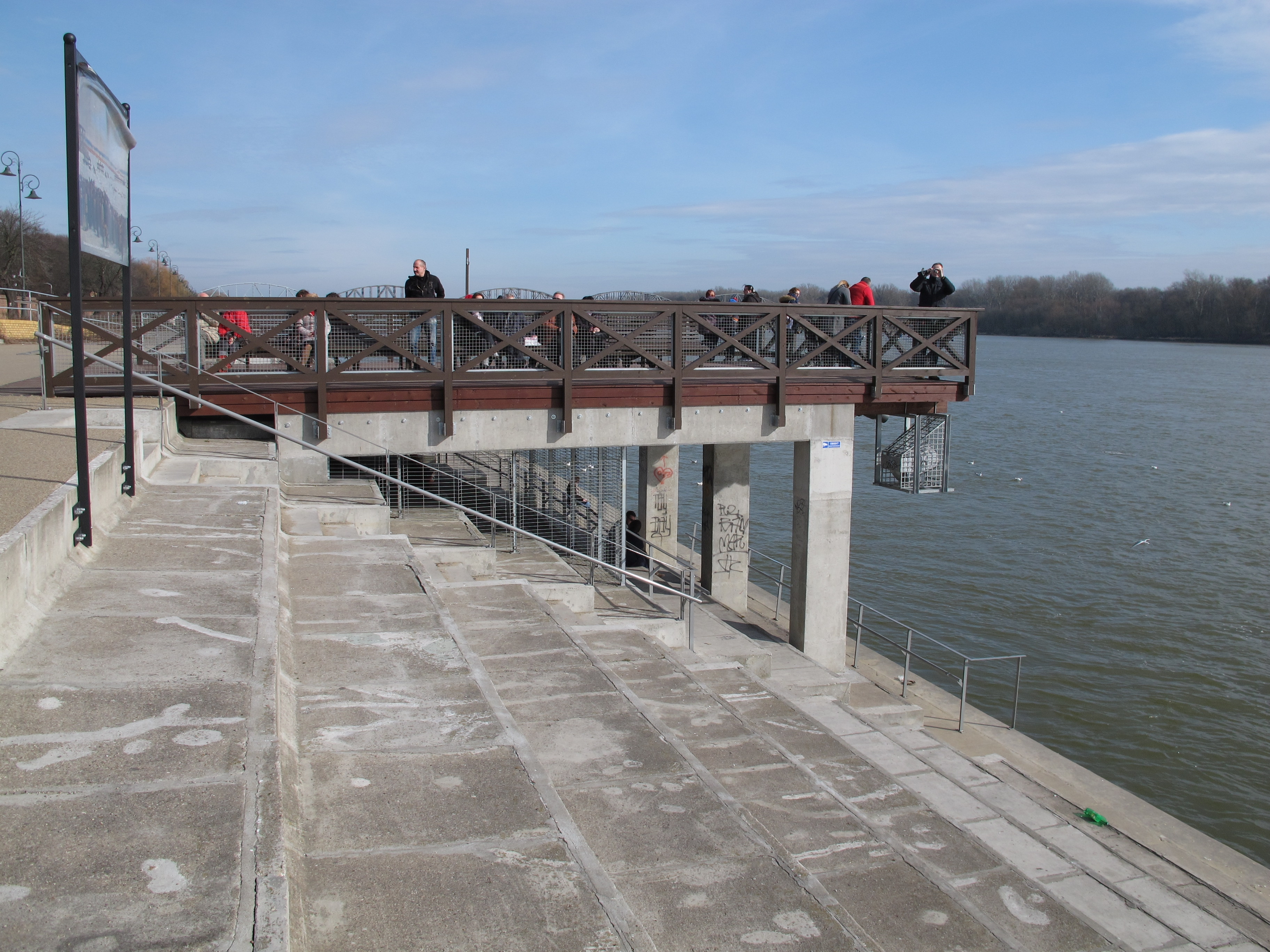 Toruń - viewing platform in Filadelfijski Boulevard